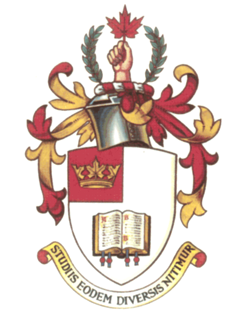 The coat of arms of the Royal Society of Canada (RSC)